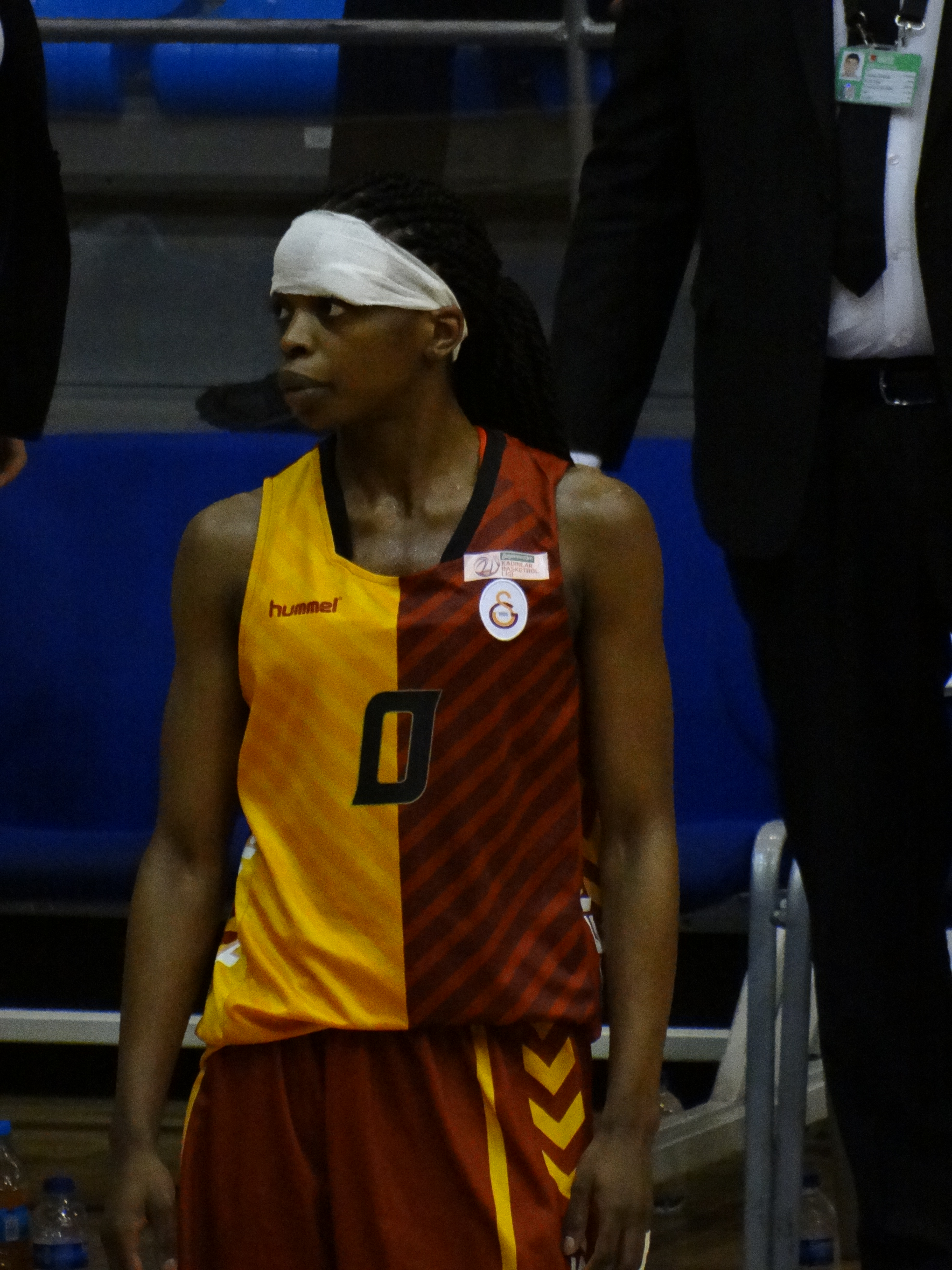 Olivia Époupa Fenerbahçe Women's Basketball vs Galatasaray Women's Basketball TWBL 20180408